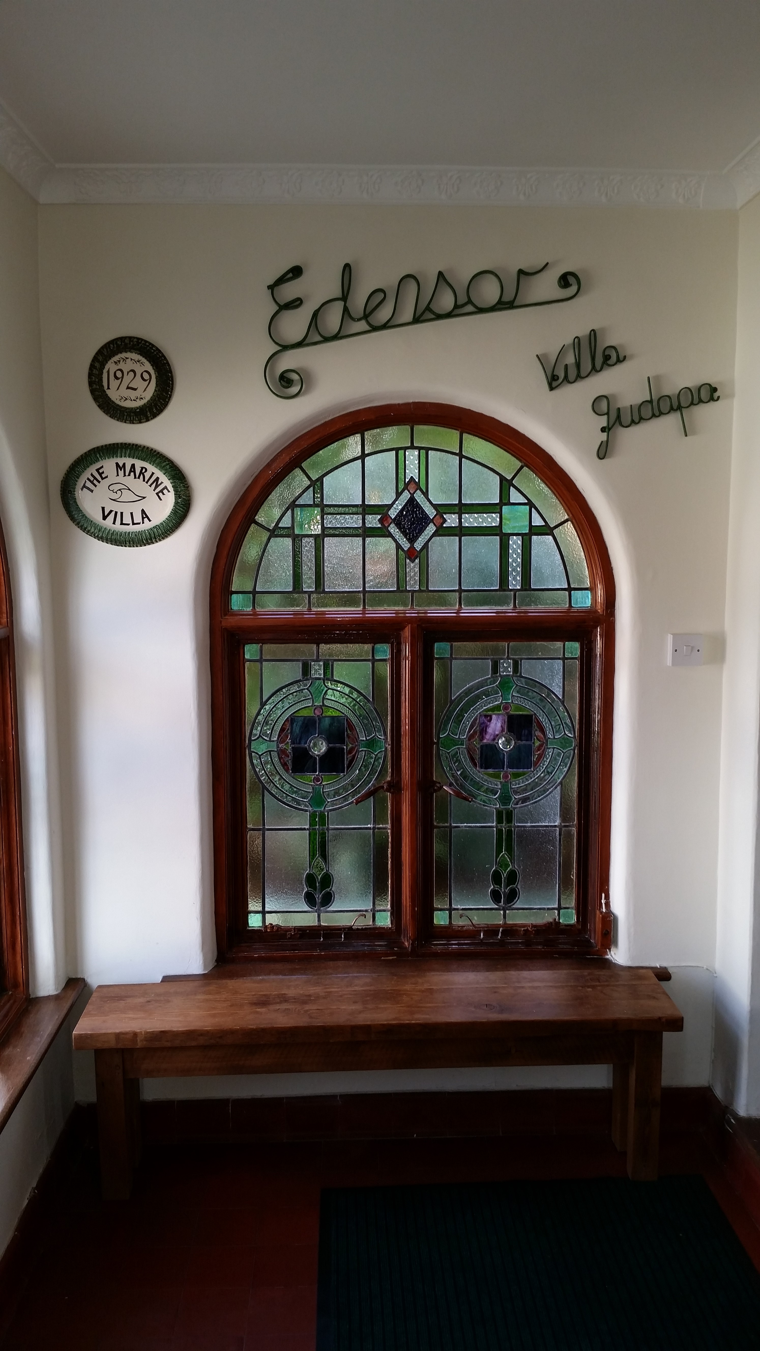 Photo of the Marine Villa vestibule showing original stained glass window and the signage of Villa Judapa